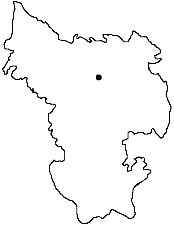 Turkivskyi Raion